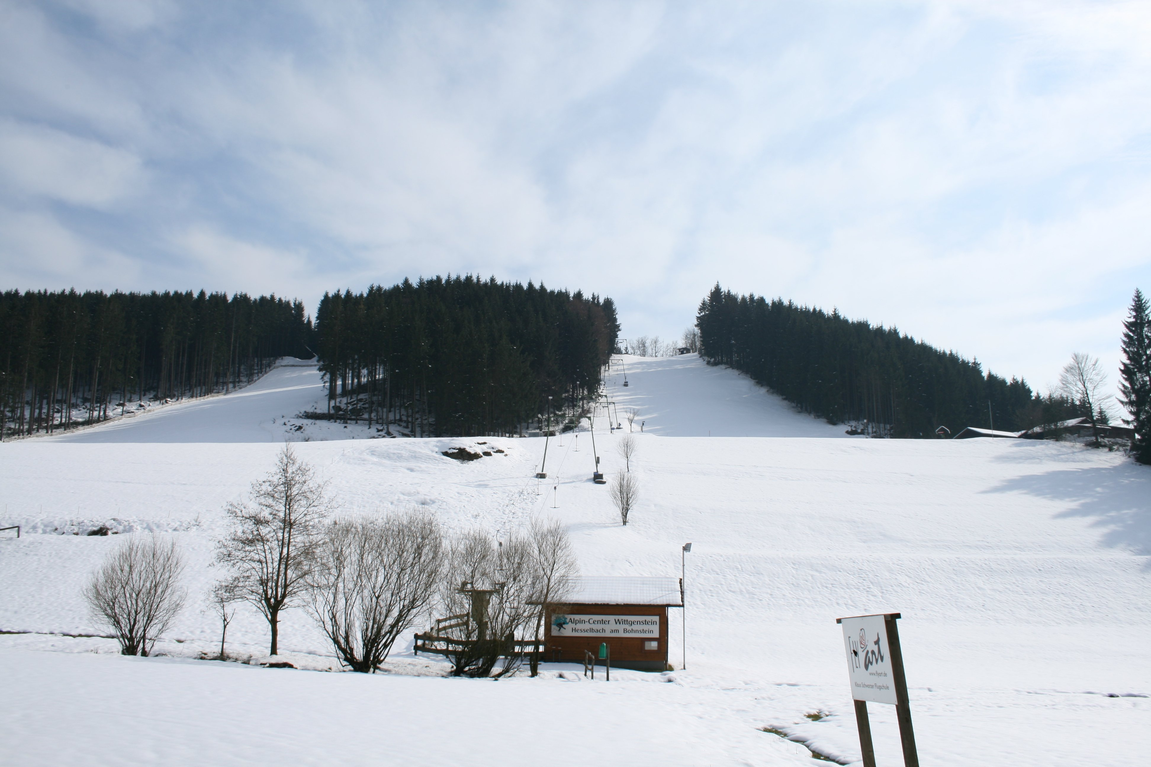 Skiing resort Hesselbach in Hesselbach april 2008.